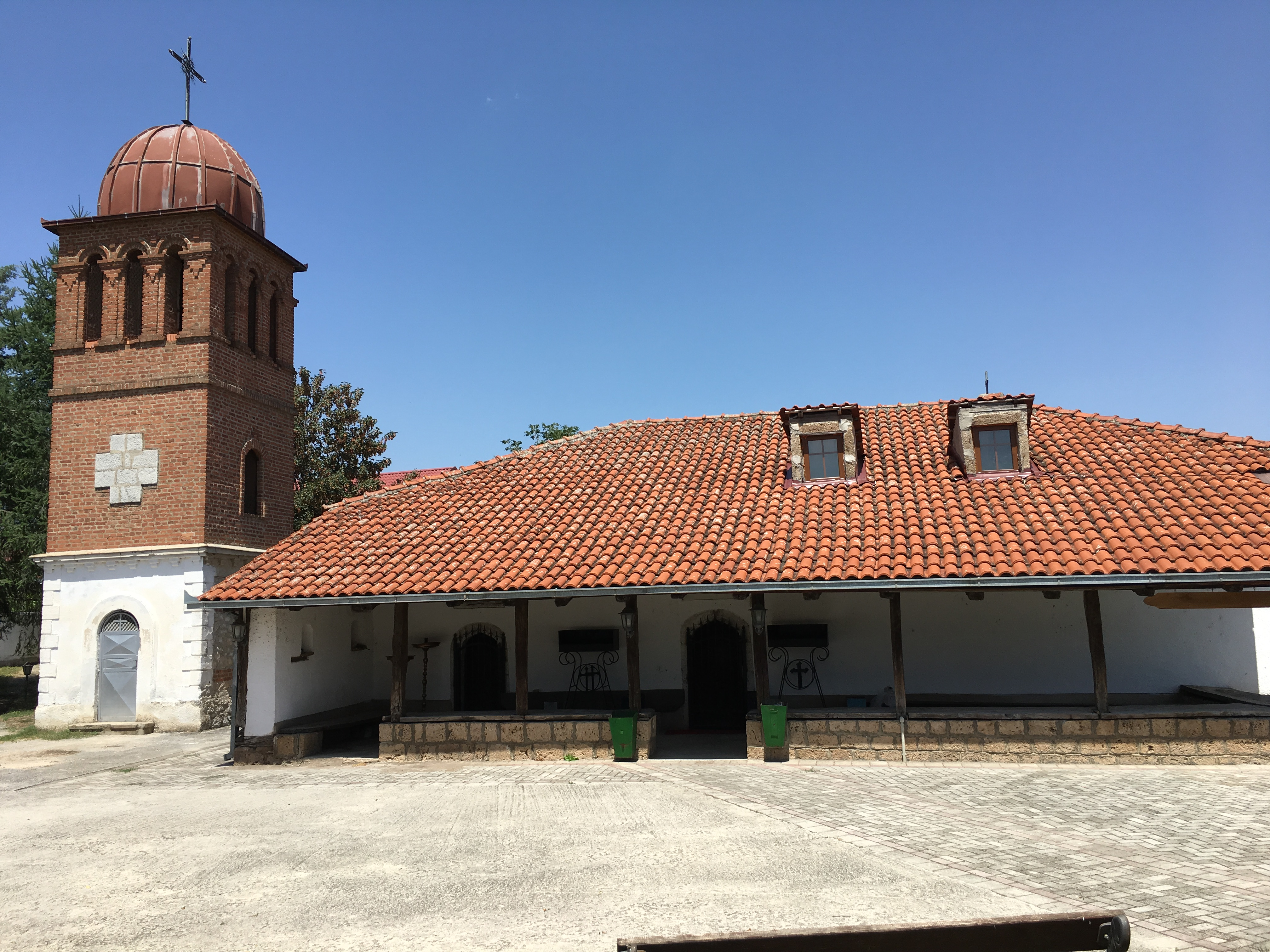 View of the St. Nicholas Church in the village Vranište